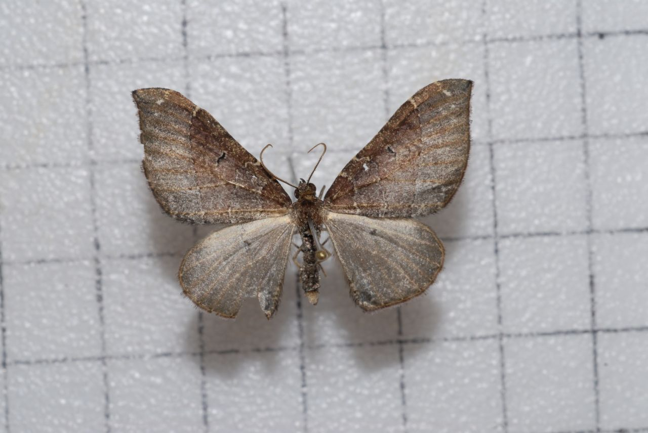 Xenortholitha corioidea (Bastelberger, 1911) 格黑點尺蛾 鞍1:P.60,Pl.14-21 Endemic species of Taiwan